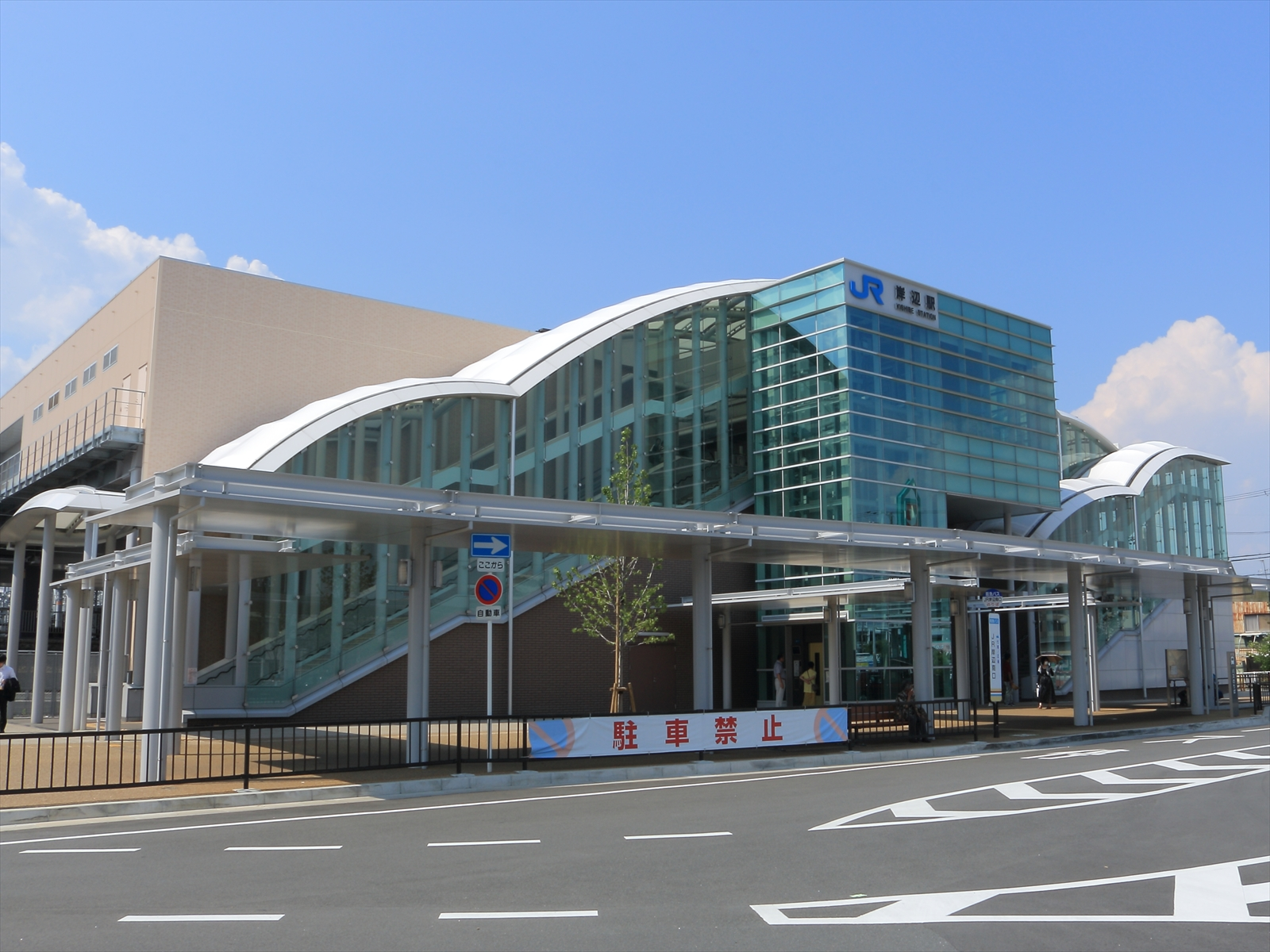 Station building from Kishibe Station.